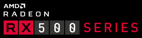 Unofficial logo for the RX 500 series made using official marketing materials.